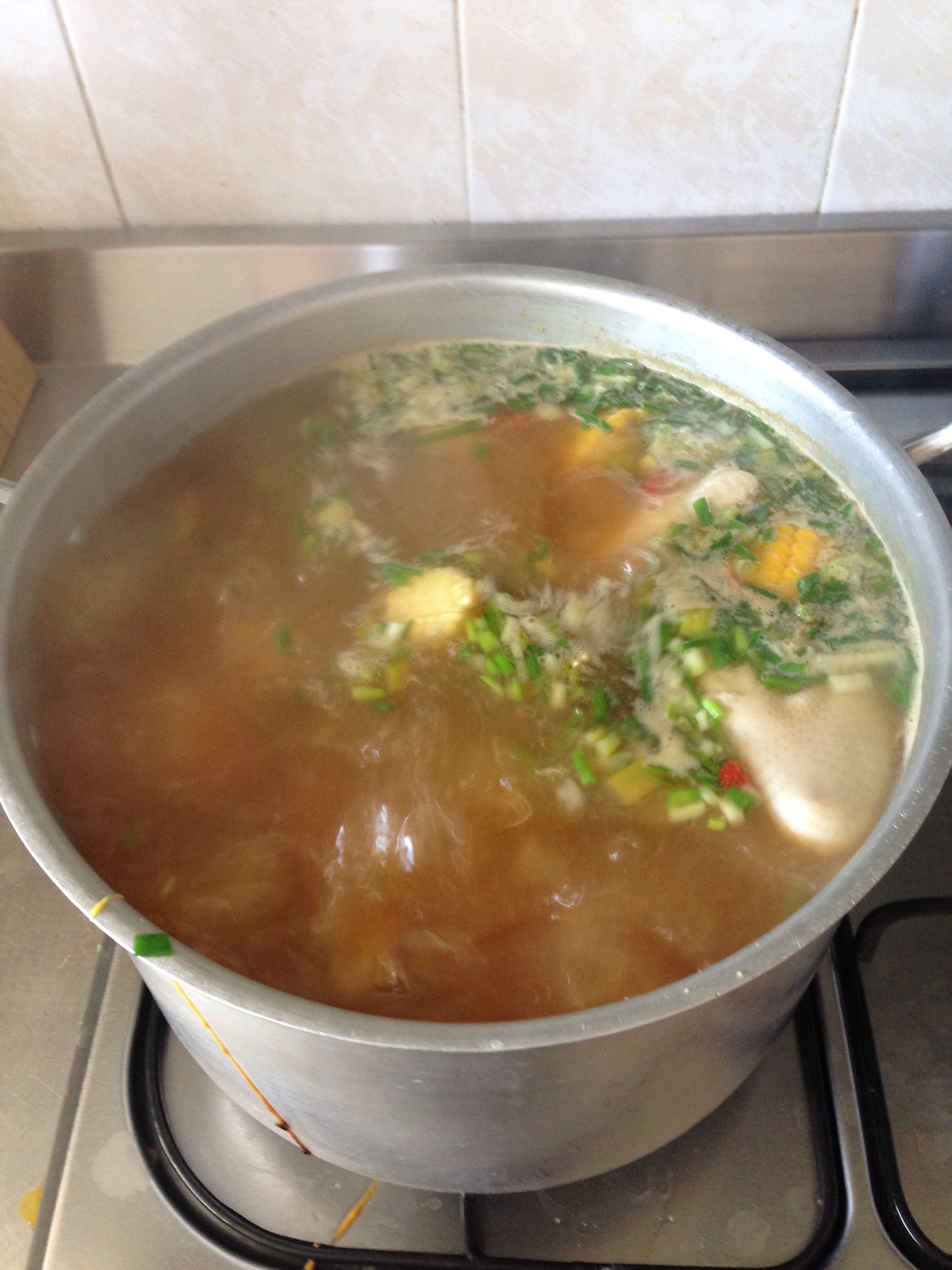 Sancocho hirviendo